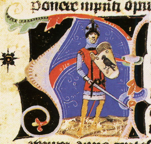 Chronicon Pictum